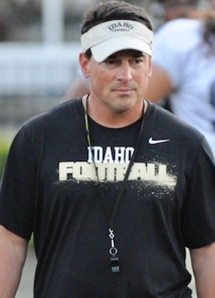 Mark Criner as Defensive Coordinator of the Idaho Vandals in August 2012.